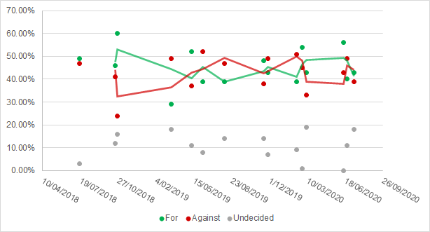 A graphical summary of poll results leading up to the referendum with a 2-point moving trend line as of July 26 2020. Visualises support for and against. Made on excel using the regular scatter graph. Data from the 2020 New Zealand cannabis referendum Wikipedia En page.